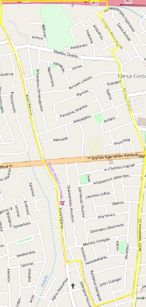 Map of Kontovathkia (Mesa Geitonia).